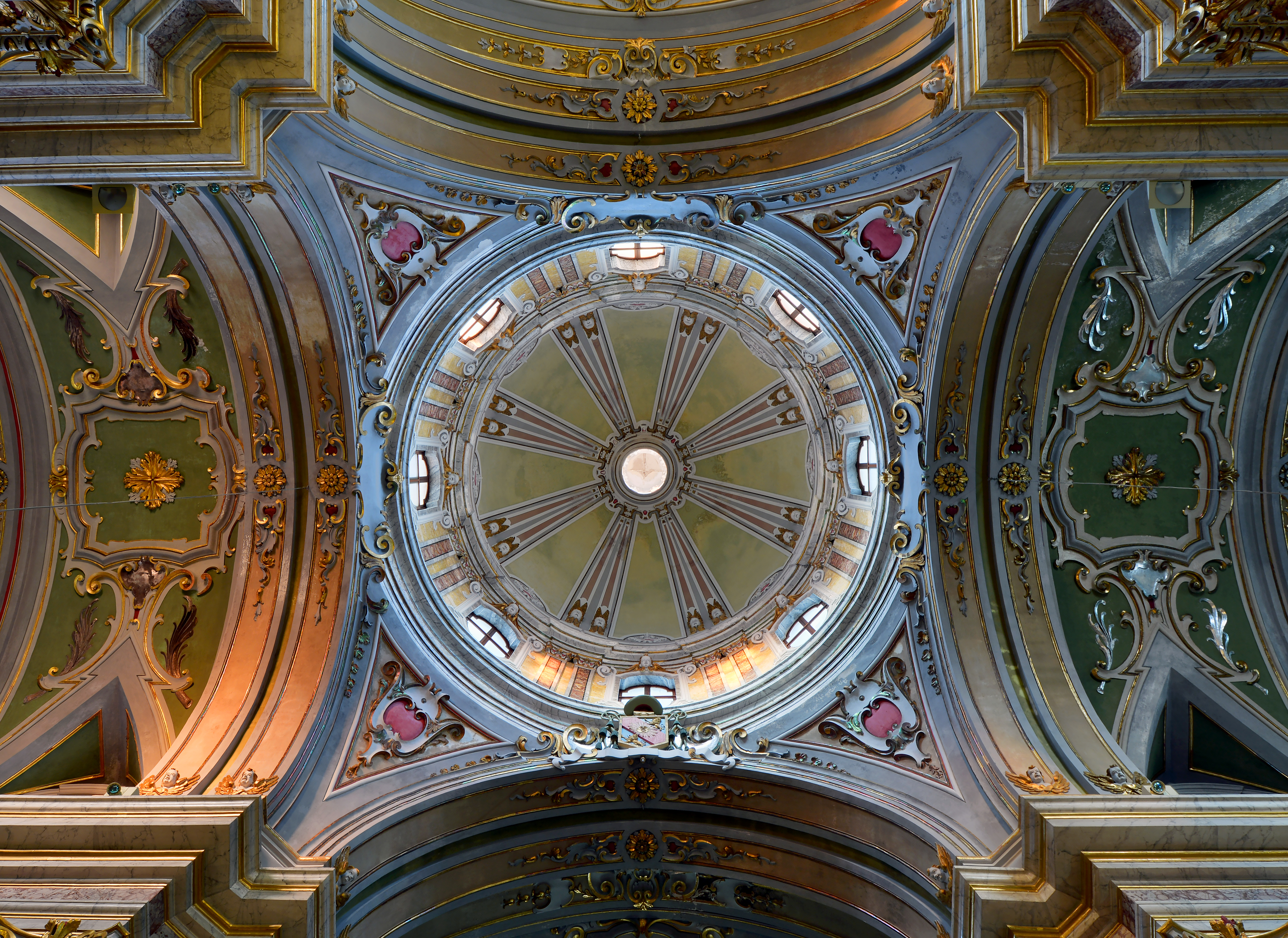 Dome of the Basilica (Oria)